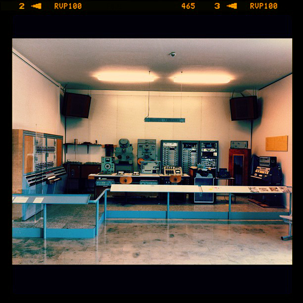 Siemens Studio for Electronic Music Edit: improved color into more natural color.